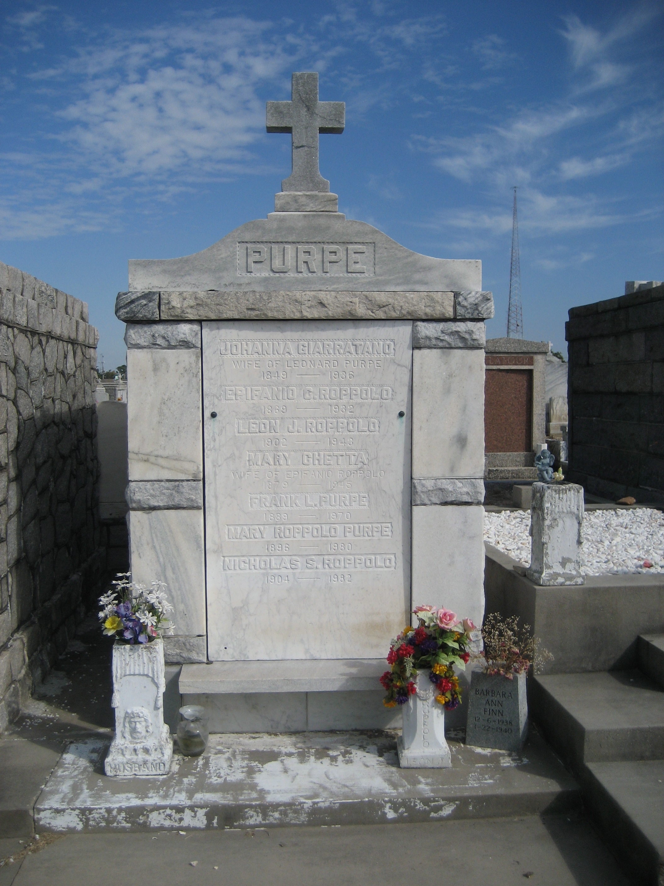 Greenwood Cemetery, New Orleans. Tomb of jazz musician Leon Roppolo.